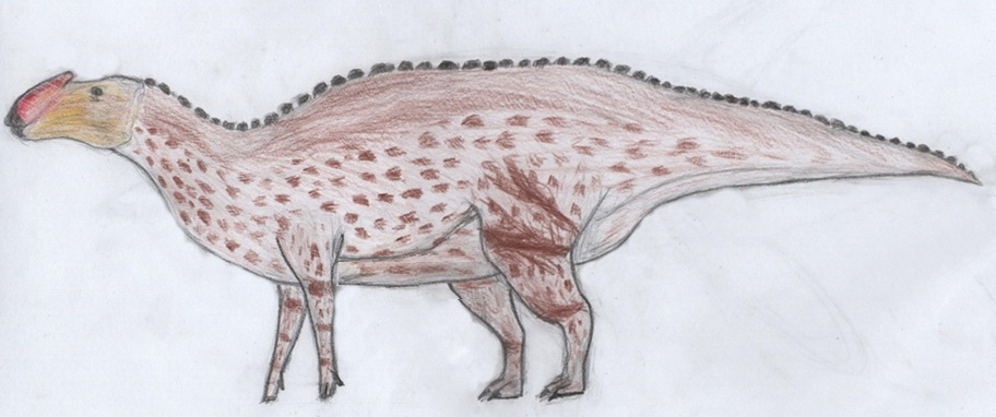 Life restoration of Aralosaurus tuberiferus.